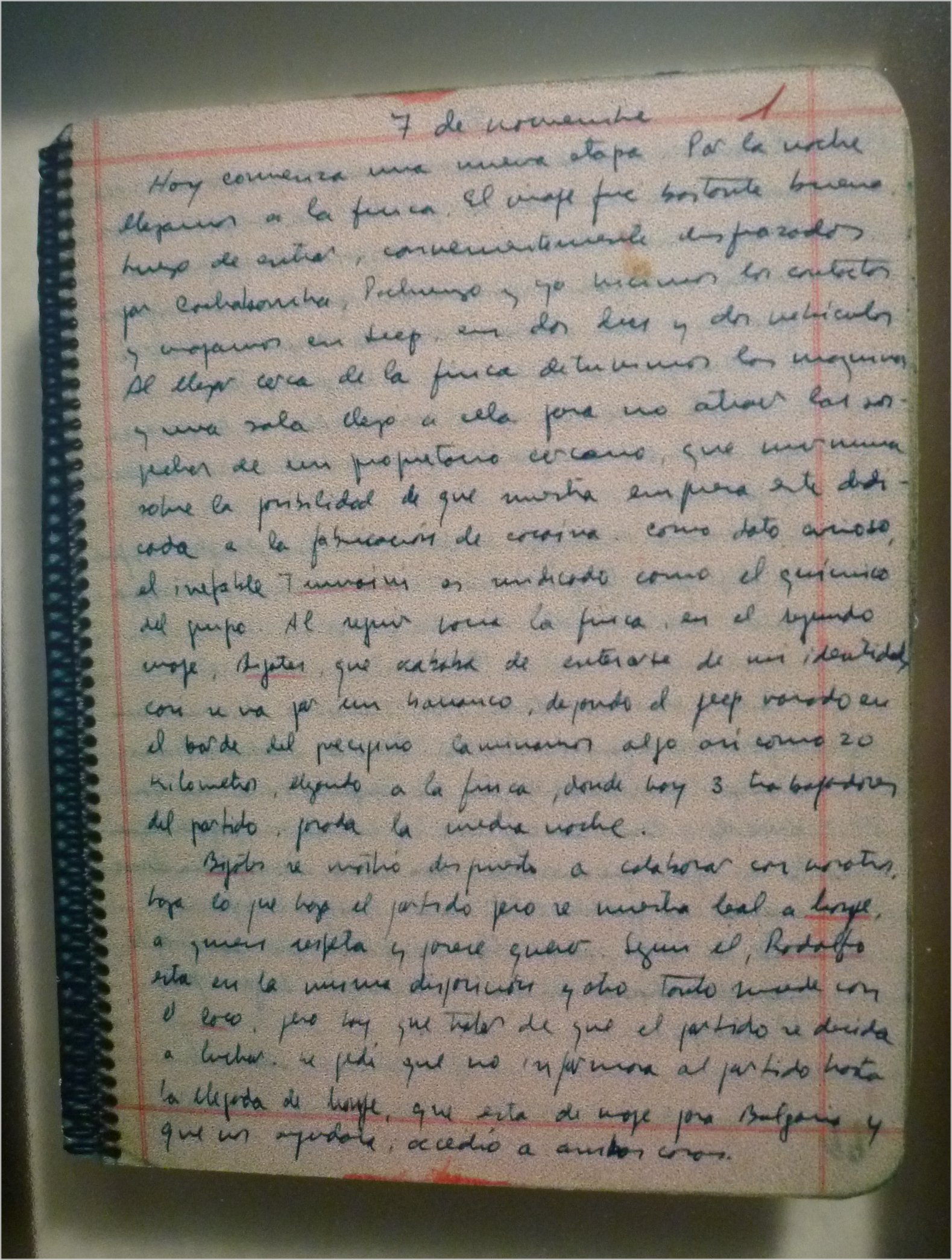 Che Guevara's Bolivian Diary. November 9th 1966. Che Guevera's Home Museum at Alta Gracia, Córdoba, Argentina